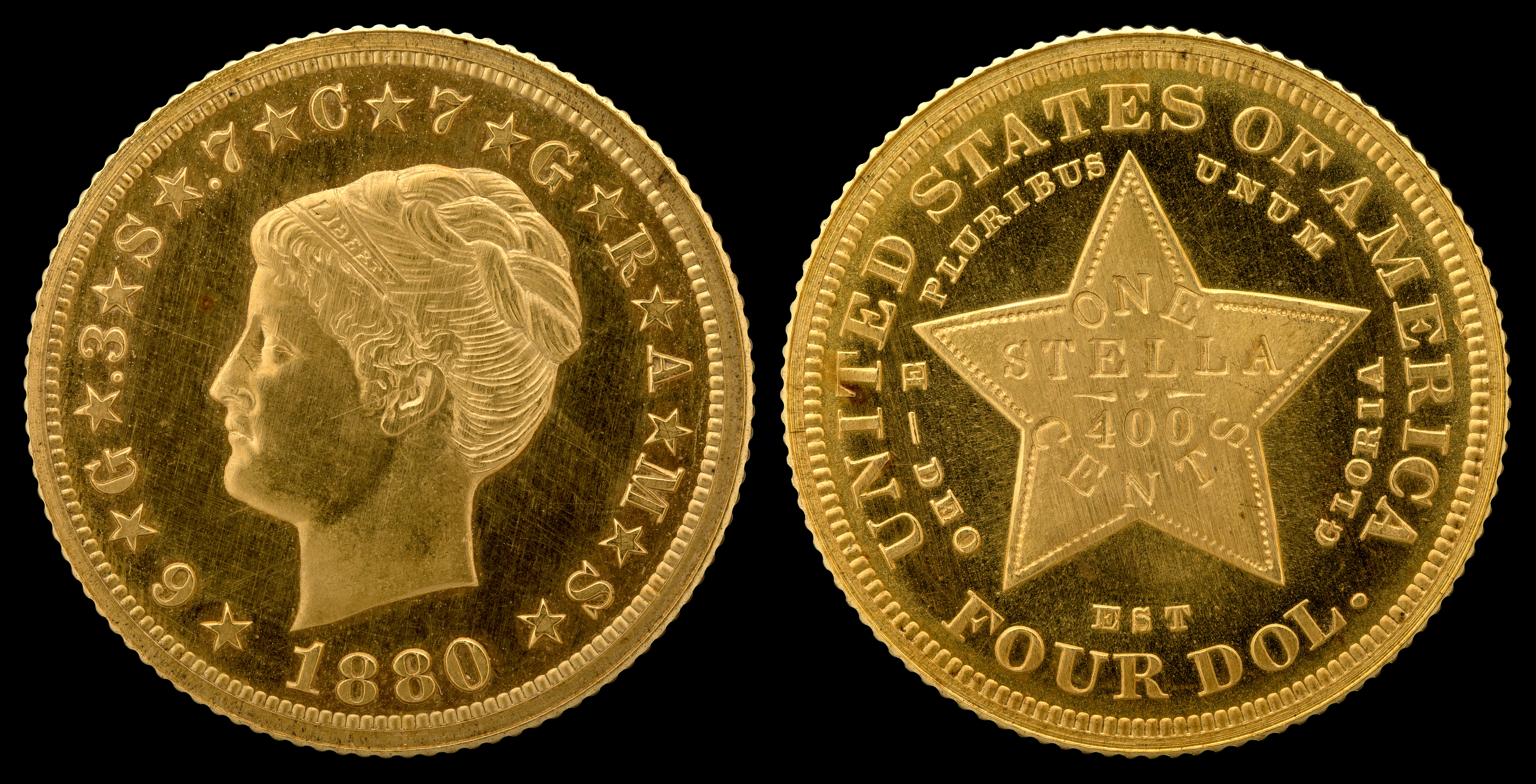 1880-G$4-Stella Pattern (Coiled Hair)JN2015-6862-63